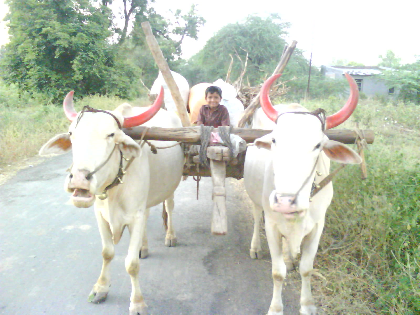 Agriculture